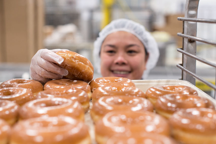 Quality Dairy Bakery